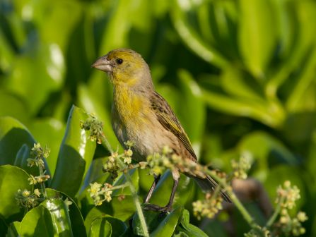 A Laysan Finch.